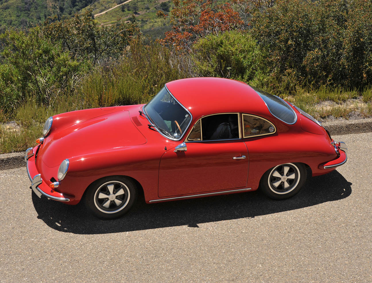 A mildly "Outlawed" 1964 Porsche coupe in Ruby Red, owned by Edward Yates of Santa Barbara since 1965.